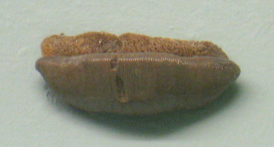 crop of file in file name